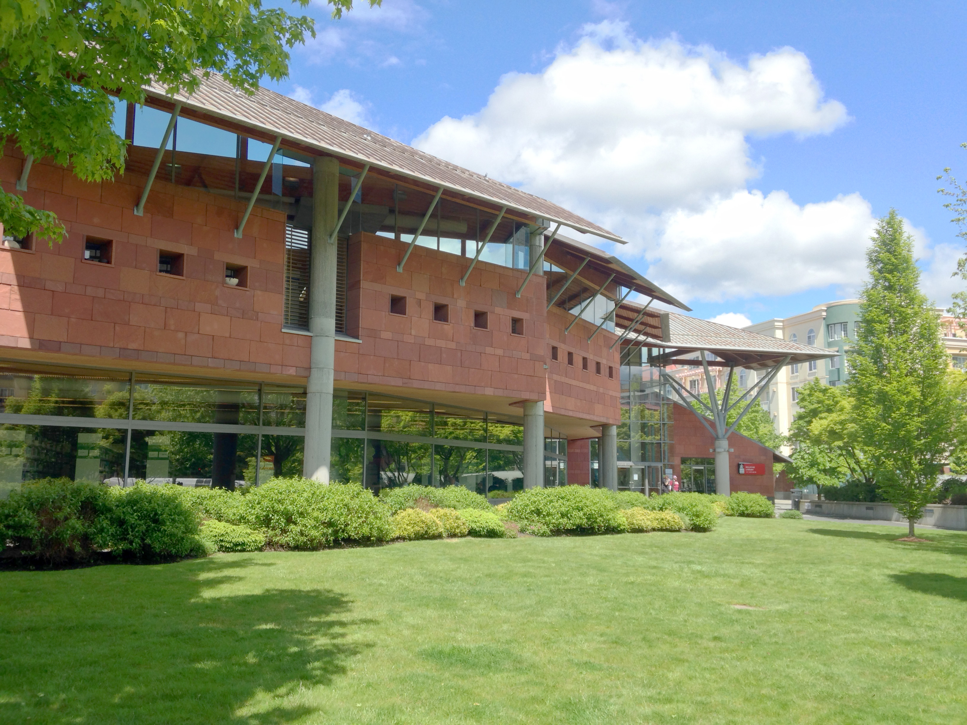 Bellevue Library, part of the King County Library System, Washington state, USA.